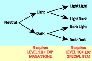 Made by LichYoshi